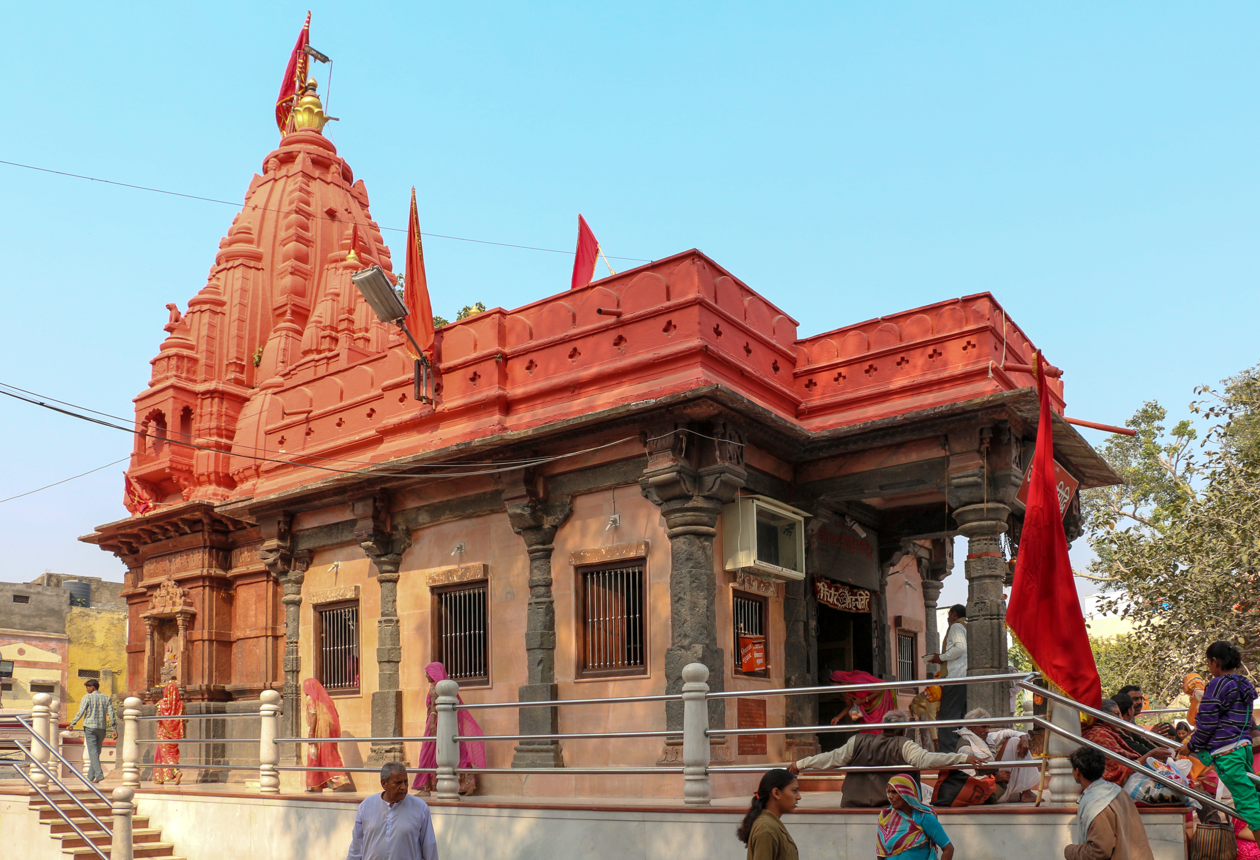 Harsiddhi Mata Temple, Ujjain, India